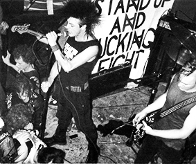 Icons of filth live 1980's